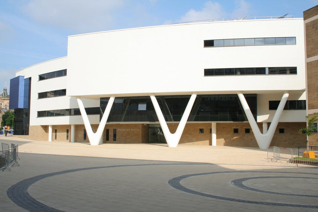 Creative Arts Building, University of Huddersfield